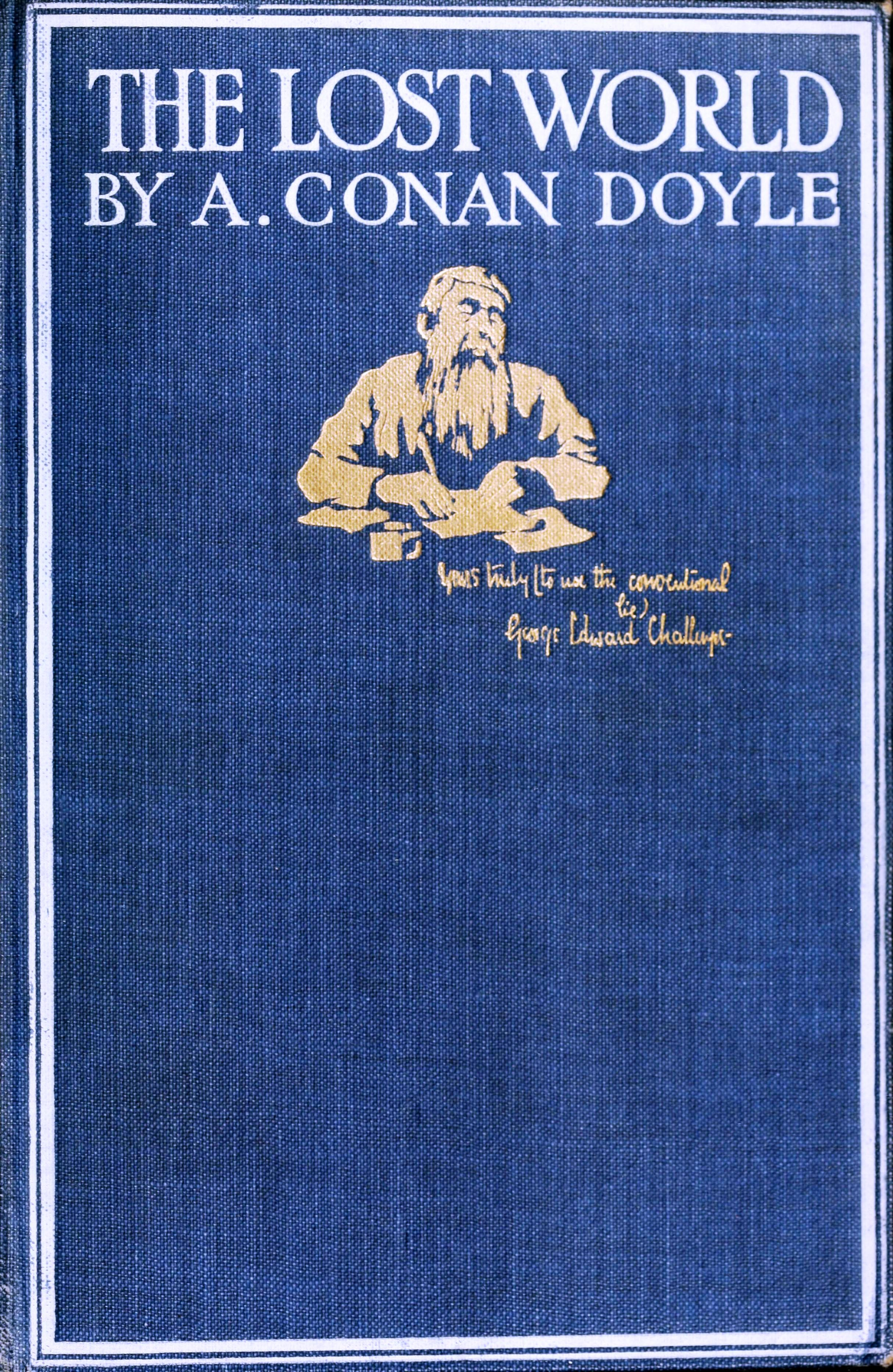 A page scan of a book The Lost World by Arthur Conan Doyle image cropped, captions removed